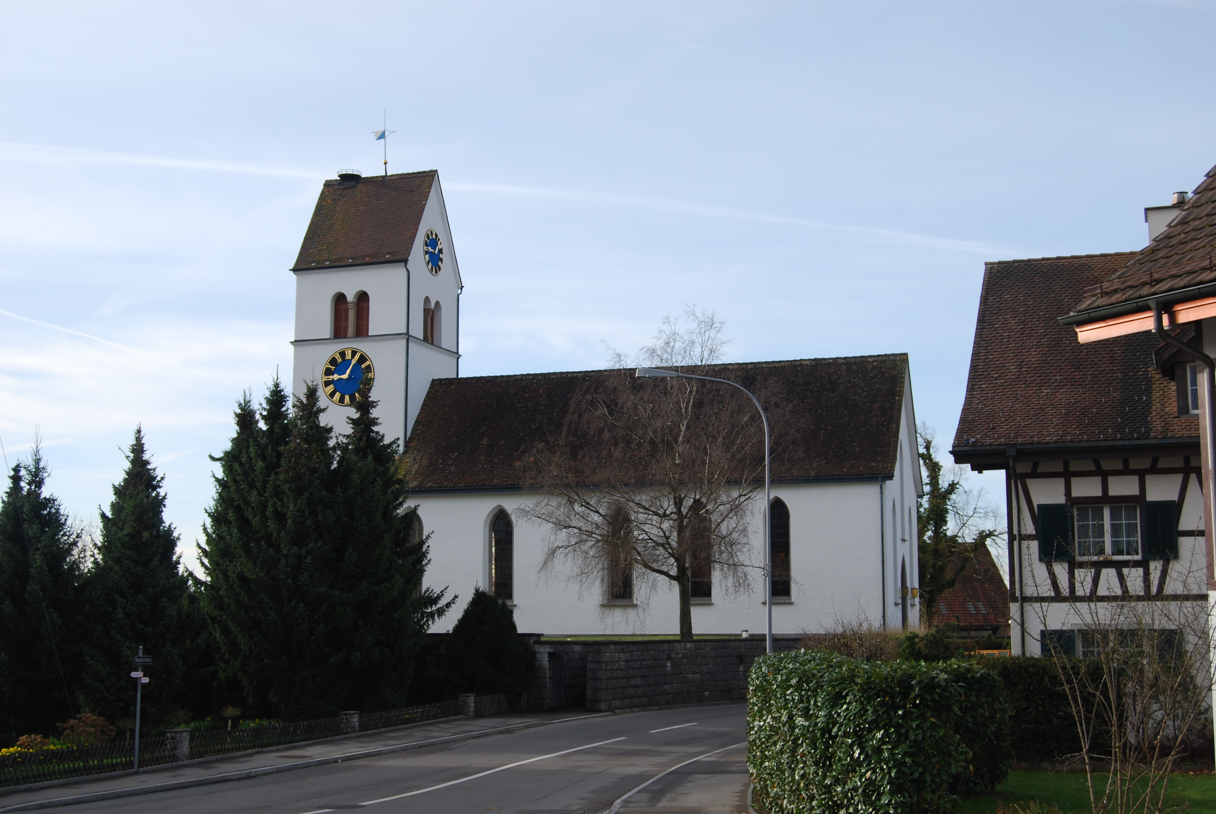 Church of Steinmaur, canton of Zürich, SwitzerlandEsperanto: Preĝejo de Steinmaur, Kantono Zuriko, Svislando